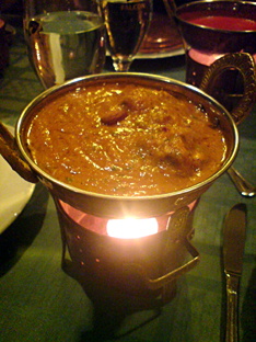 Corma Chicken